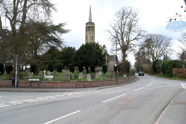 Newborough Church and churchyard